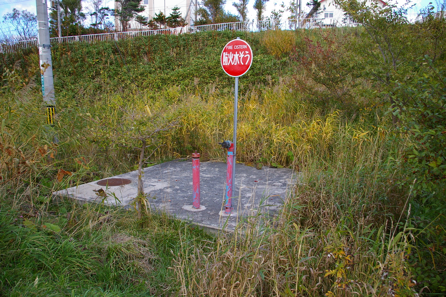 Fire cistern.